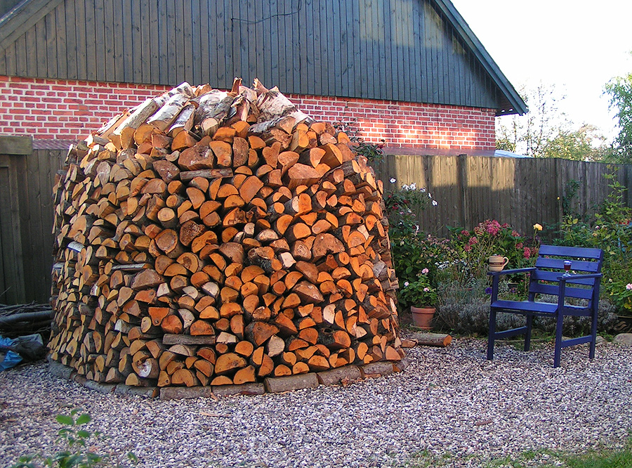 Pile of firewood arranged in artistical and practical way